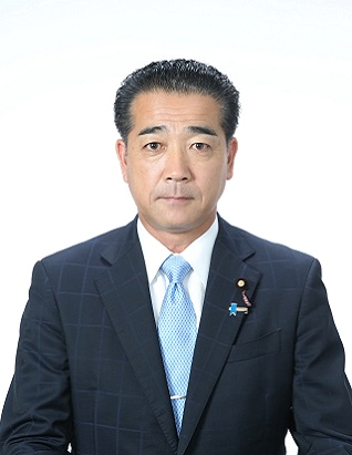 Fujiki Shinya was inaugurated as Parliamentary Vice-Minister for Agriculture, Forestry and Fisheries on September, 2019